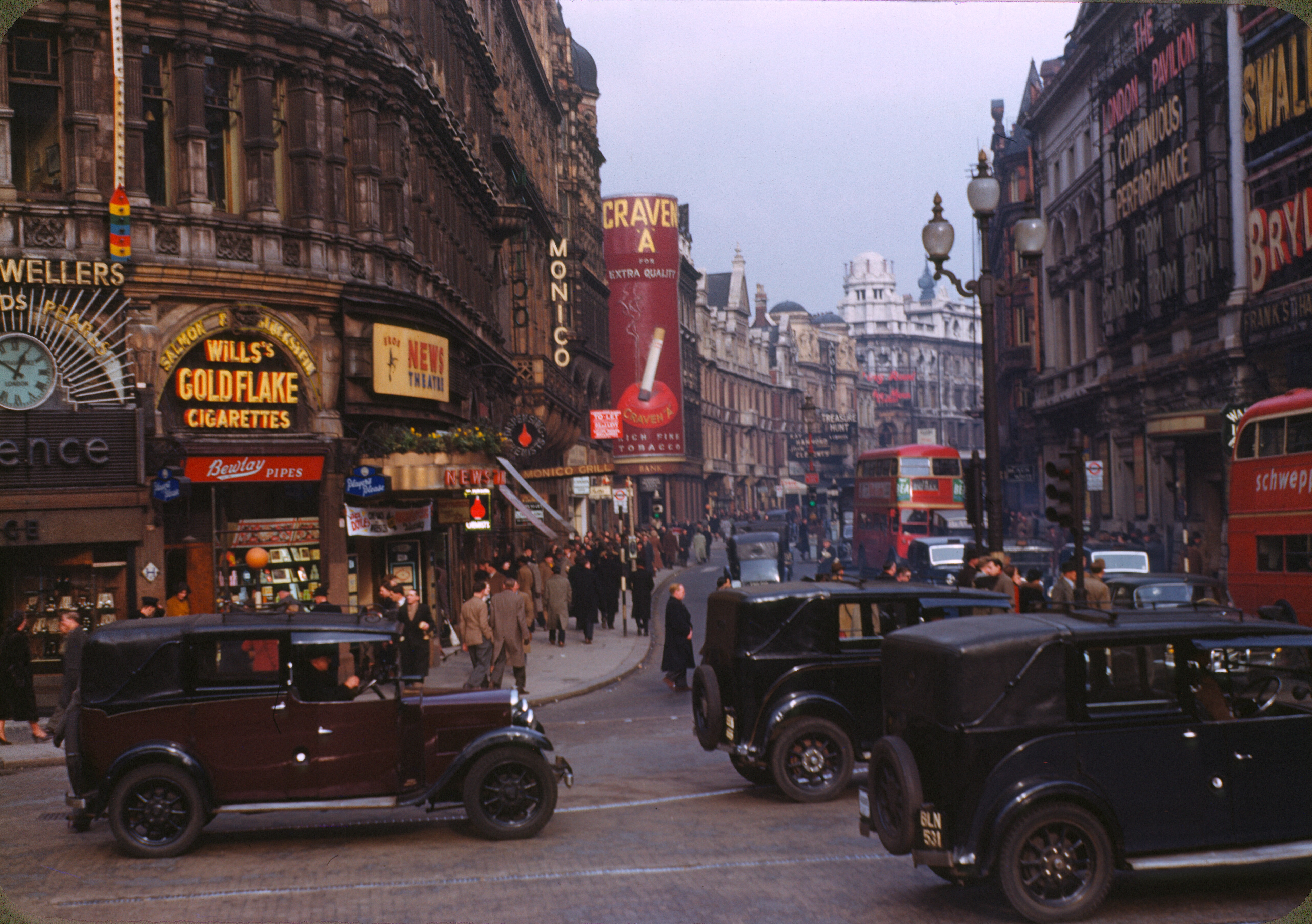 Shaftesbury Avenue from Picadilly Circus, in the West End of London.